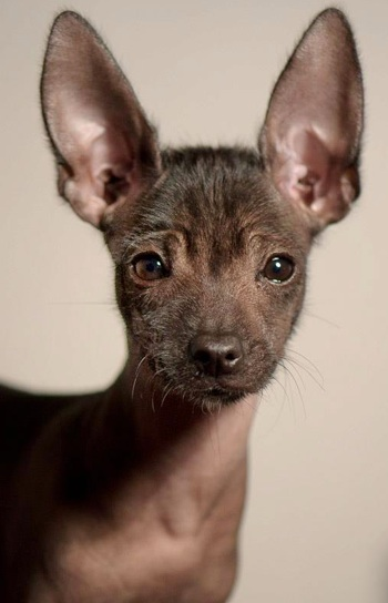 A young toy Xoloitzcuintli.